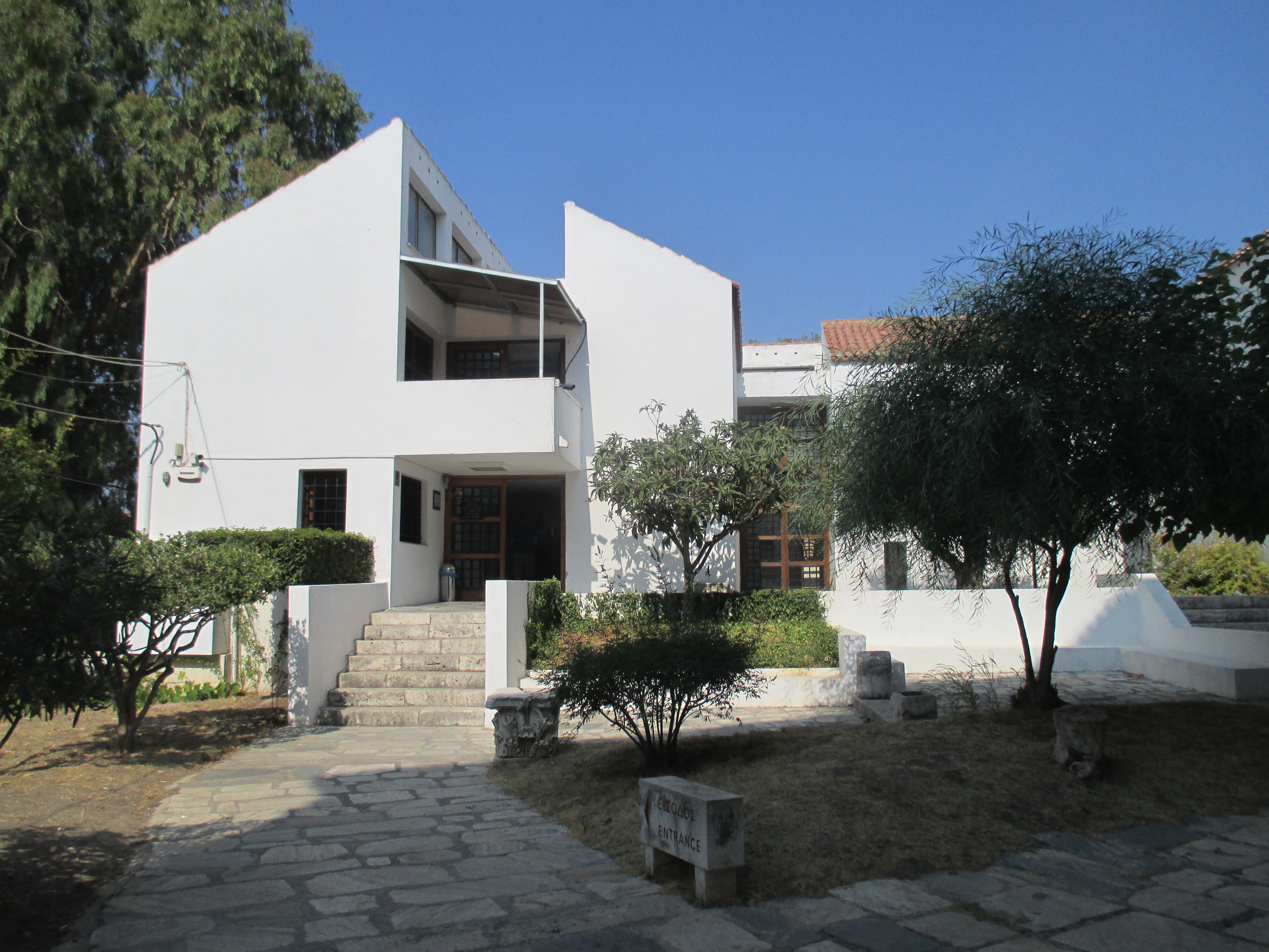 Archaeological Museum of Samos, Samos town, Greece. New building.